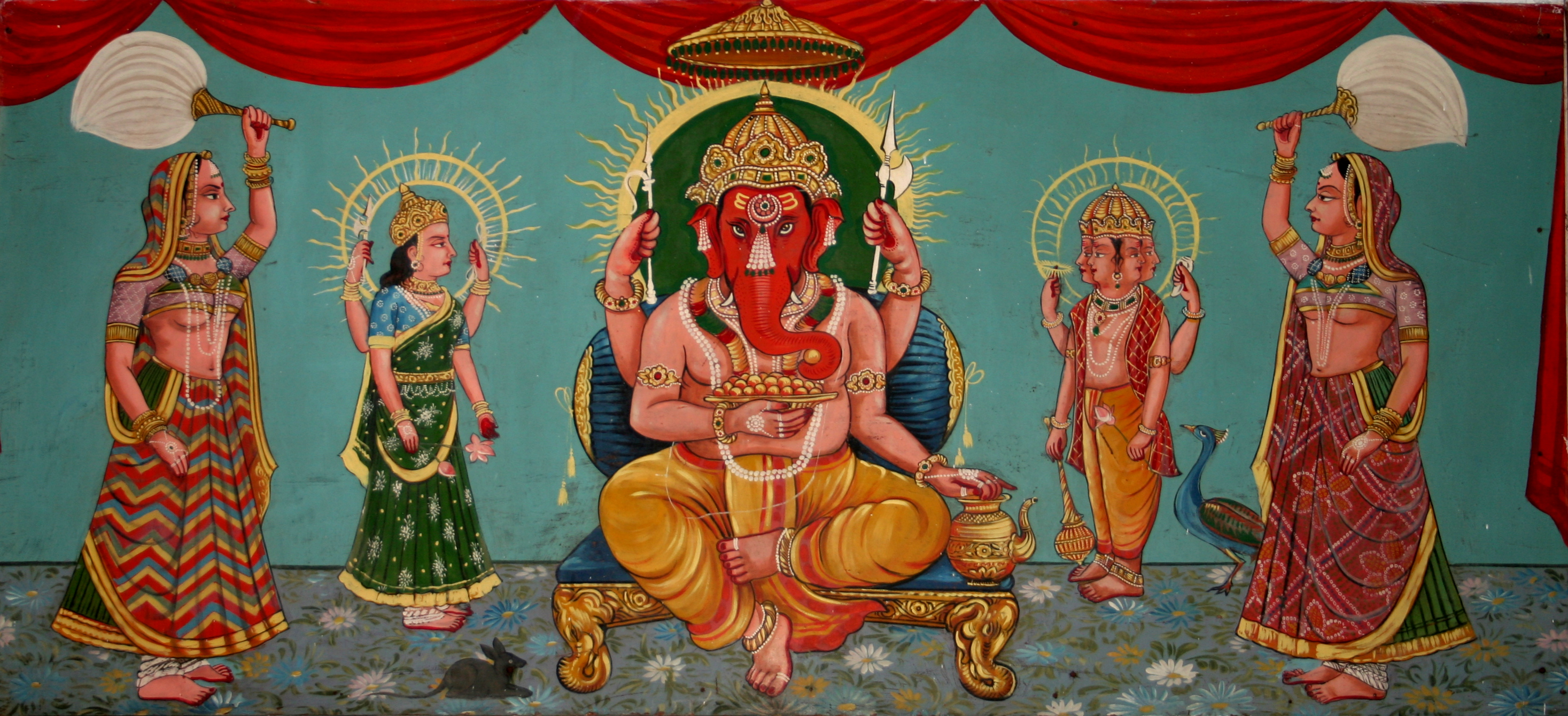 Ganesh, folk art, Bharatiya Lok Kala Museum, Udaipur, India.